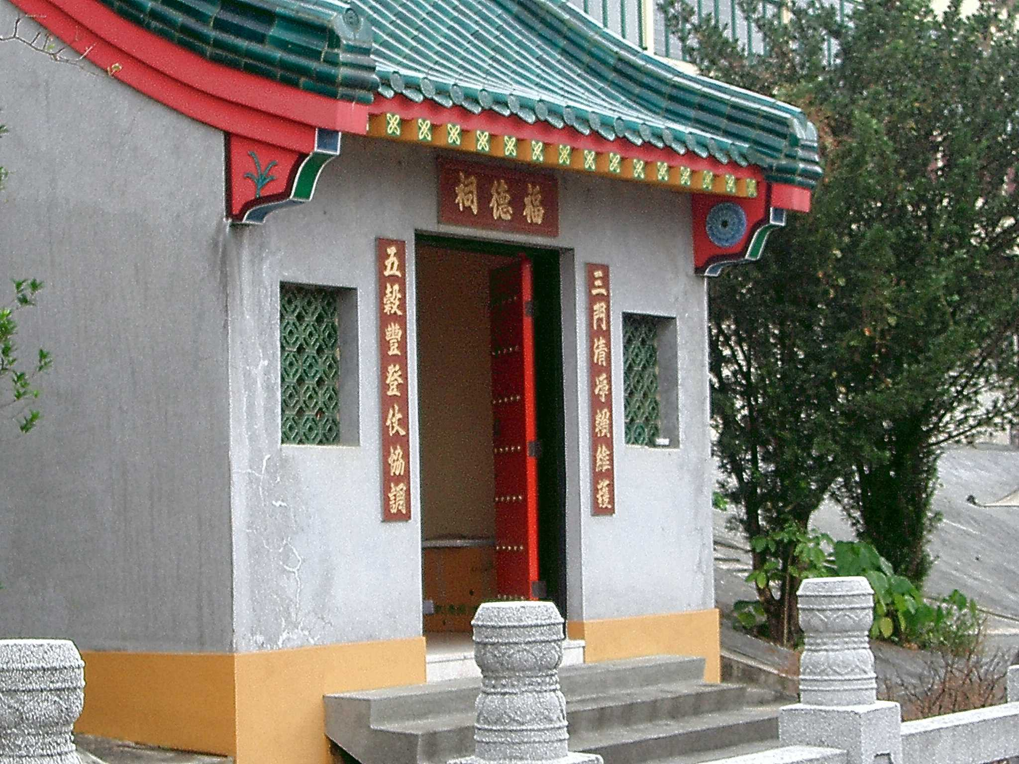 Gnome Altar, Chuk Lam Sim Monastery, Fu Yung Shan, Tsuen Wan, Hong Kong